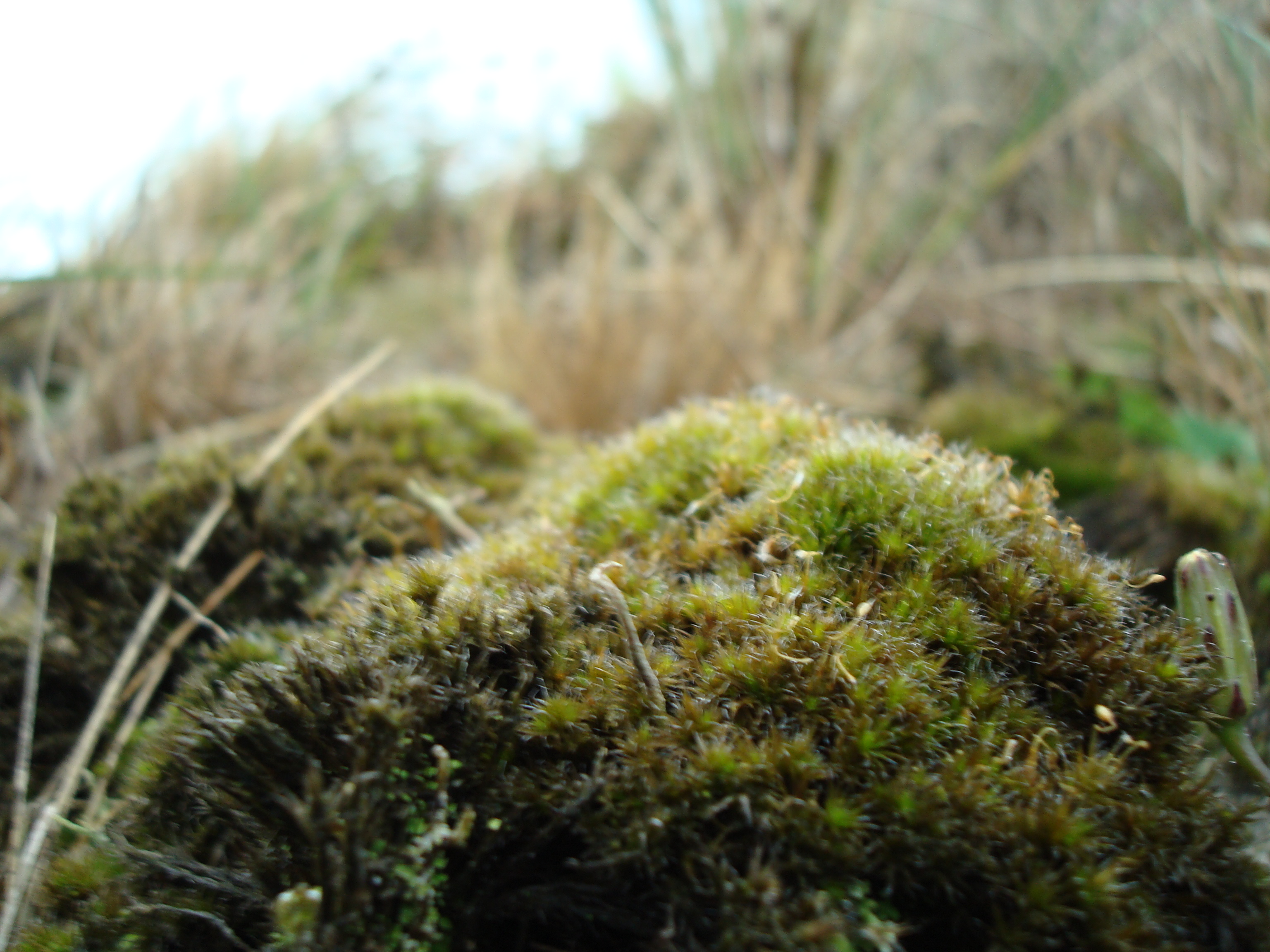 Campylopus introflexus on the Danish island of Fanø, in the Wadden sea